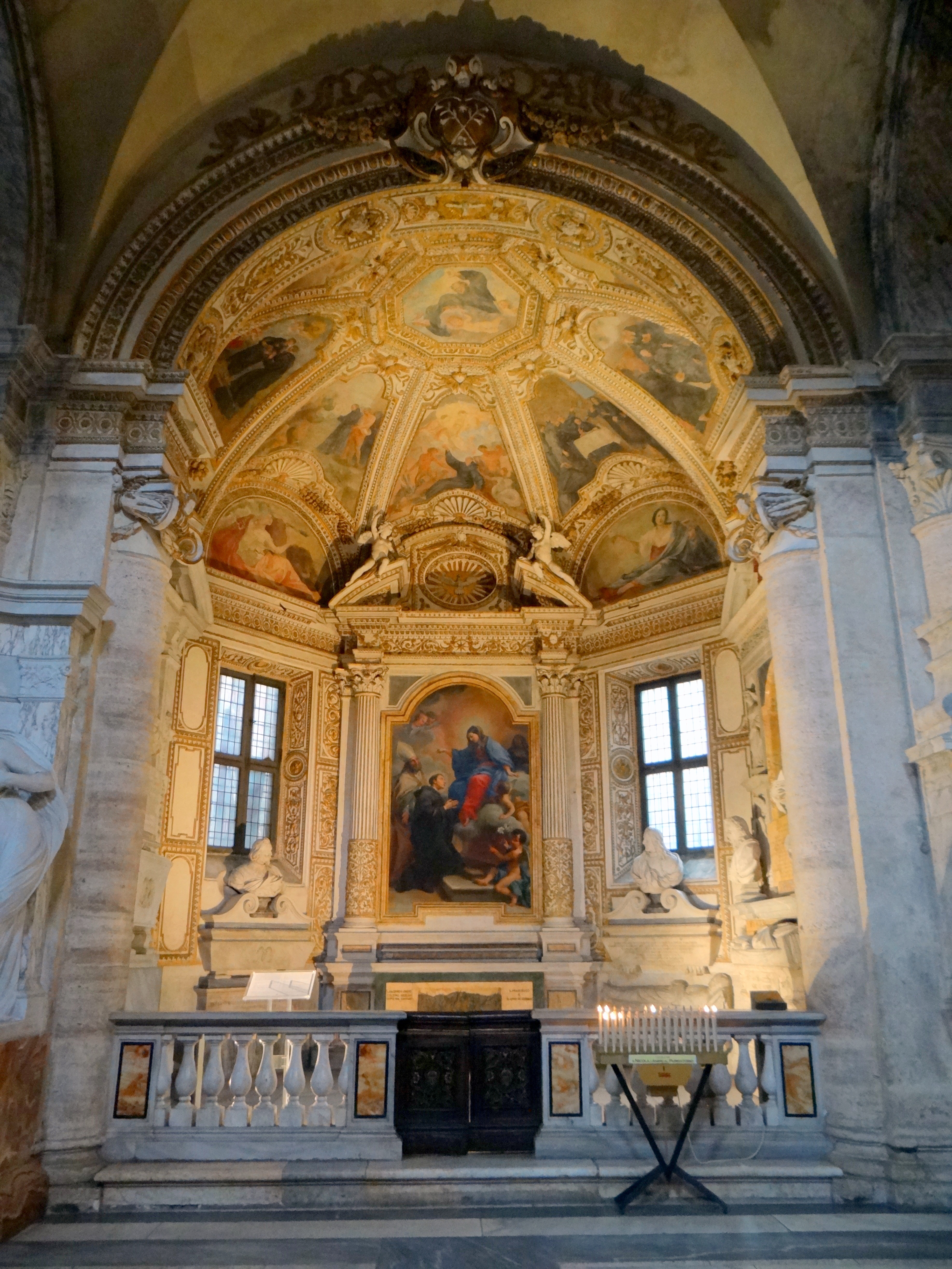 The Mellini Chapel in the Basilica of Santa Maria del Popolo